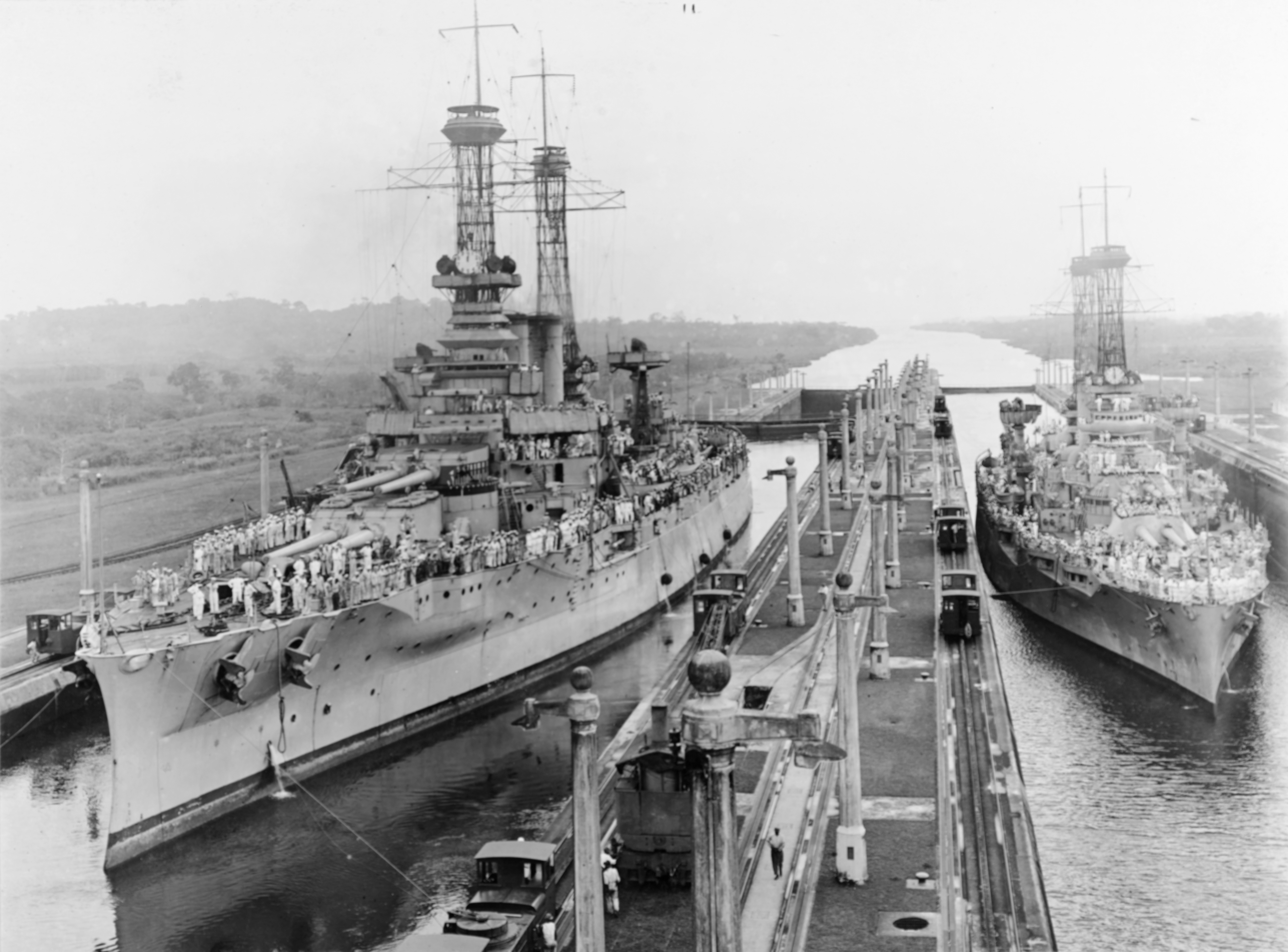 In the middle chambers of the Gatun Locks, Panama Canal, on 25 July 1919 while en route to the Pacific. USS Texas (BB-35) is at right. U.S. Naval History and Heritage Command Photograph.